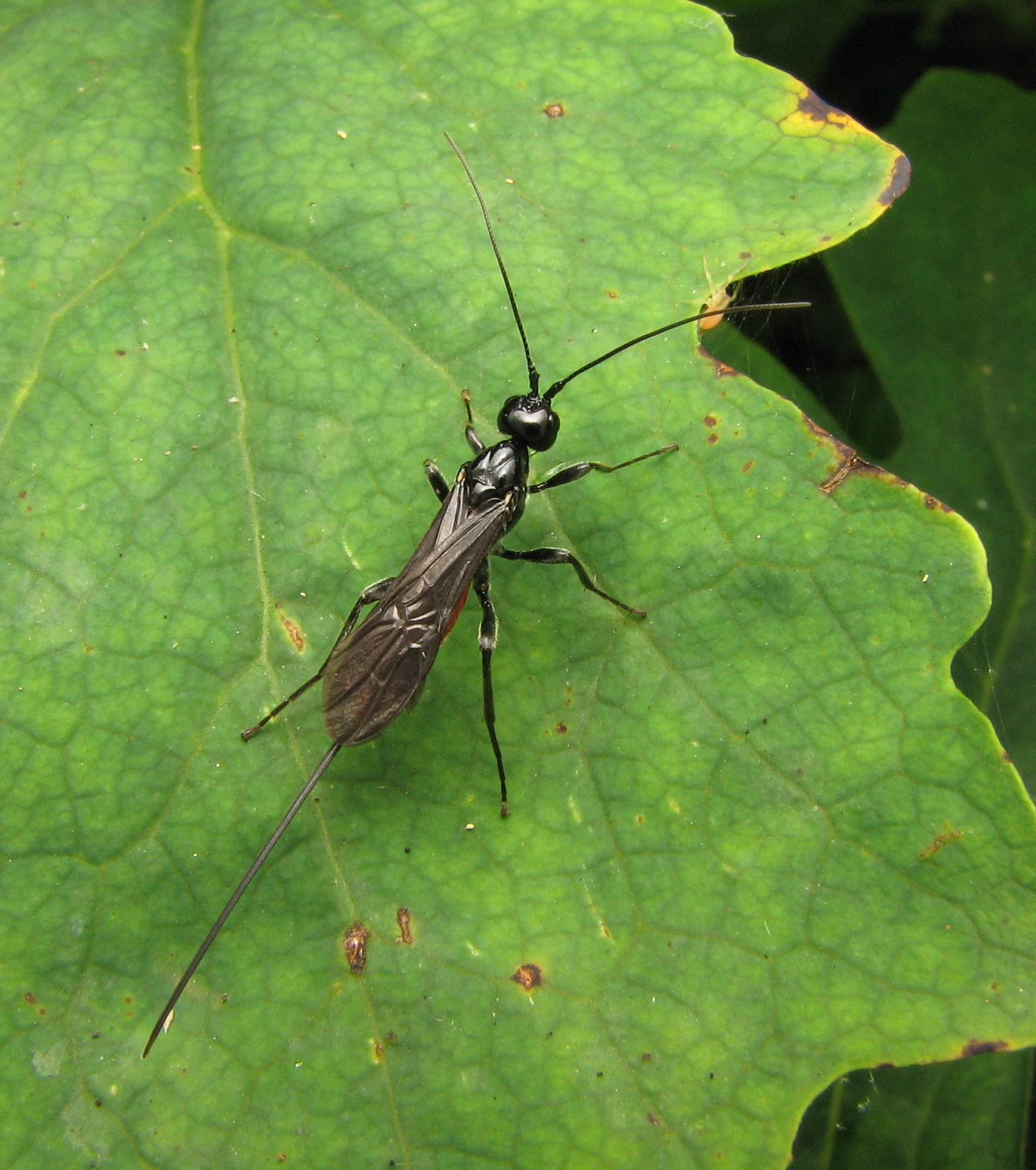 Braconid wasp, Atanycolus longicauda. Churchville Nature Center, Bucks County, Pennsylvania, USA. 40.1860° N, 74.9929° W.